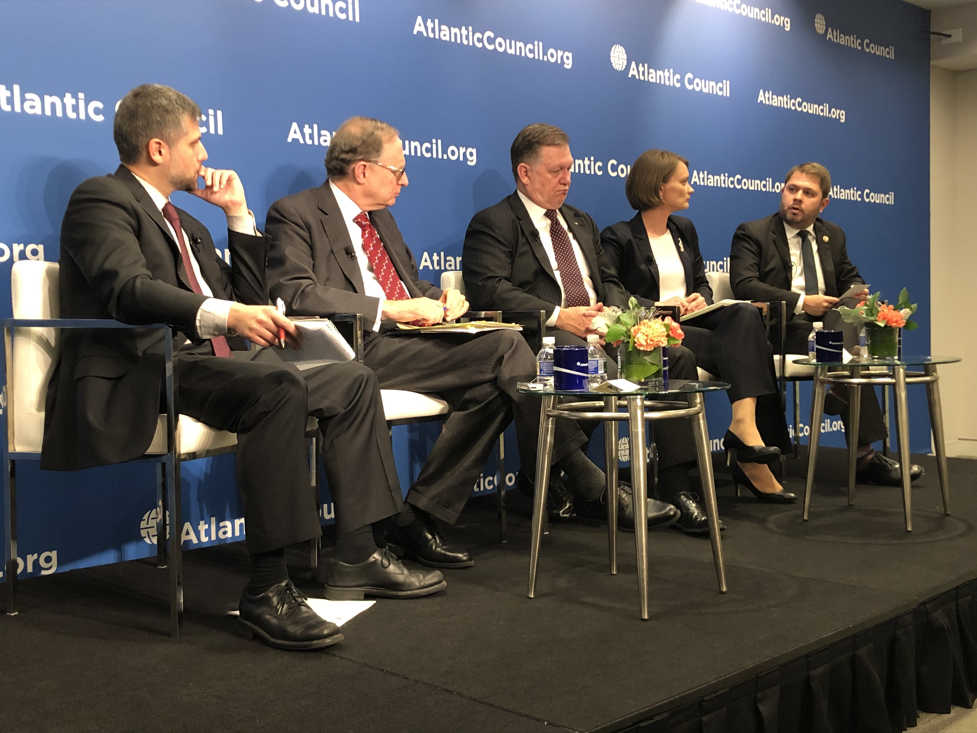 Improving @NATO defense and mobility is key to keeping us safe. Great discussion with @AtlanticCouncil today on how we achieve those goals. #StrongerWithAllies